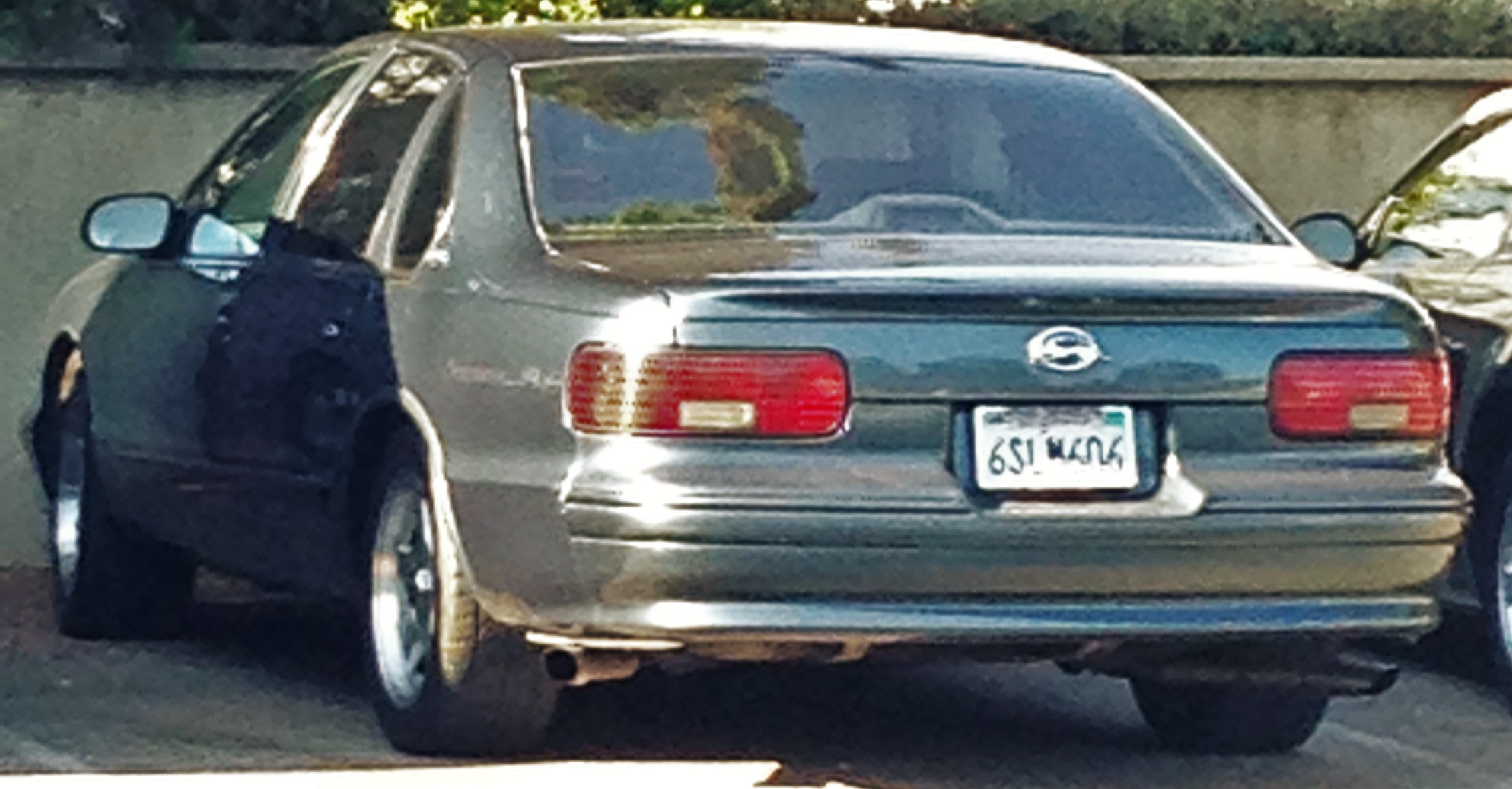 Chevy Impala SS muscle car